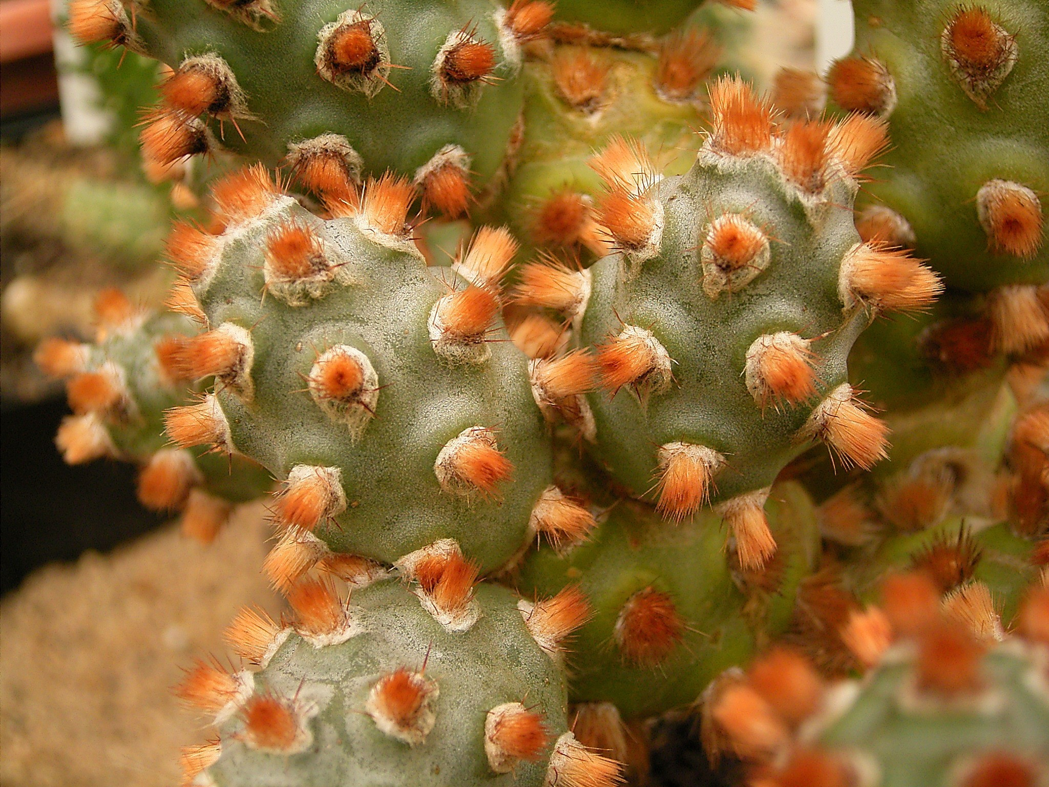 Tephrocactus molinensis